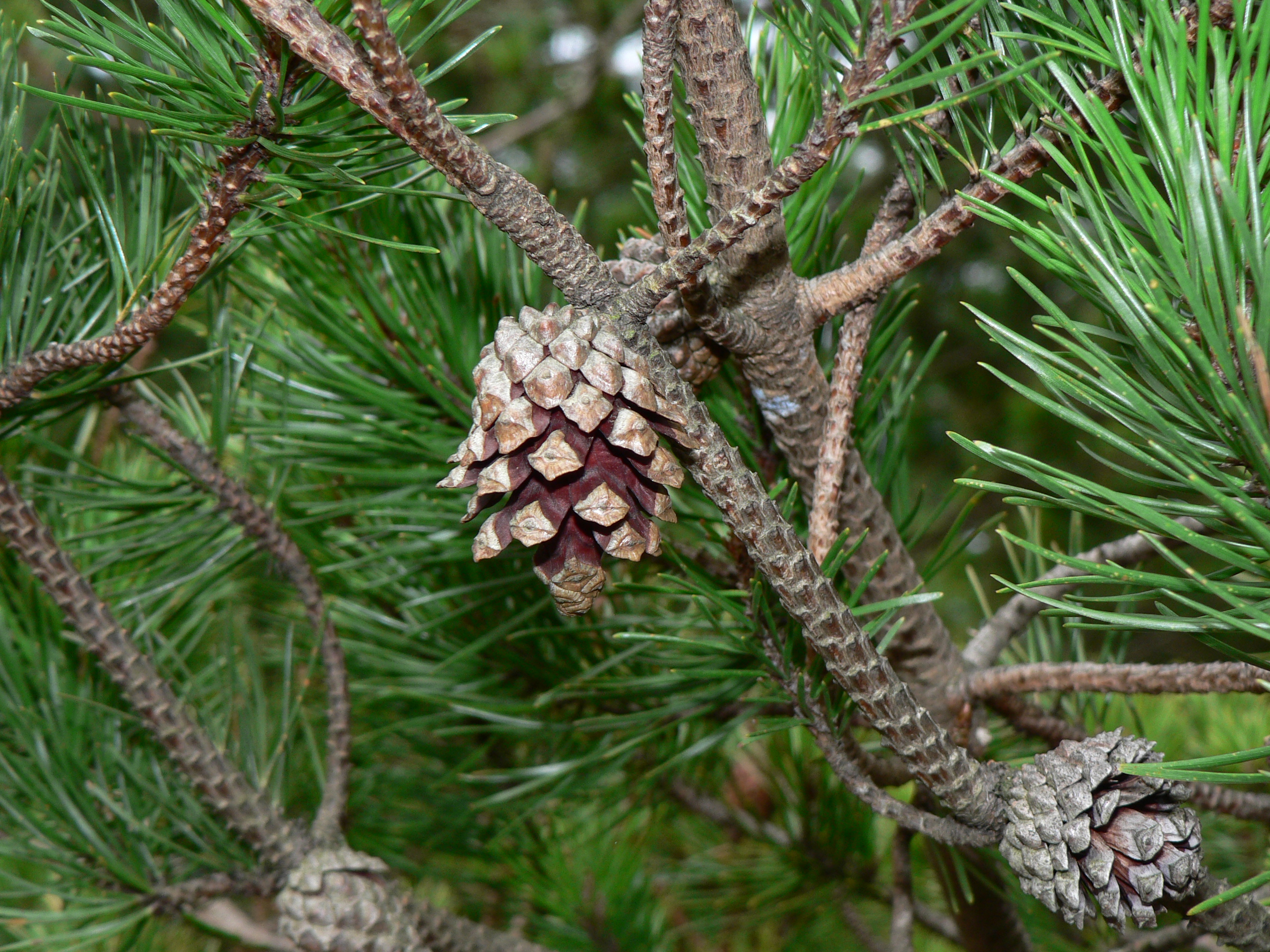 Shore Pine